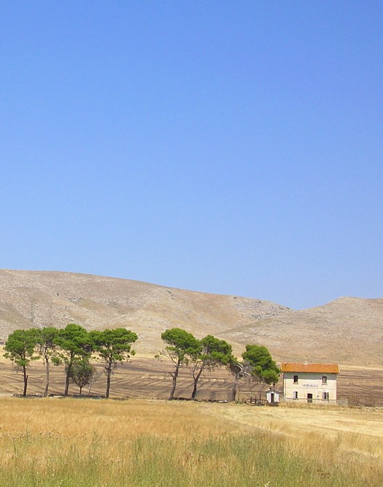 Murge picture taken by user:Idéfix, july 2005